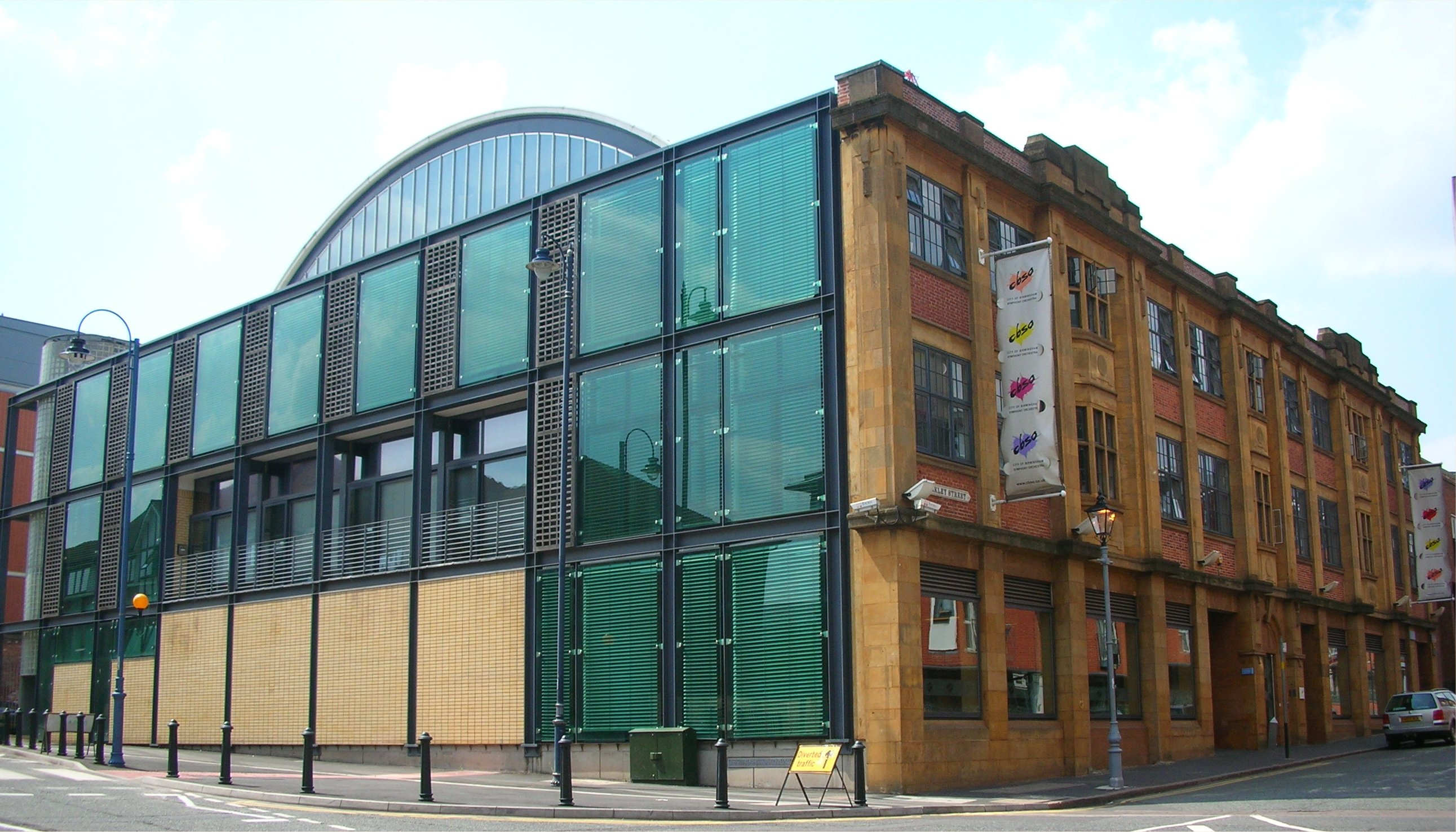 The CBSO Centre, Birmingham, England. The administrative and practice home of the City of Birmingham Symphony Orchestra. Also a public concert hall. Photographed by me 20 July 2006.